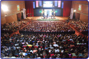 interior del teatro de la universidad de medellin